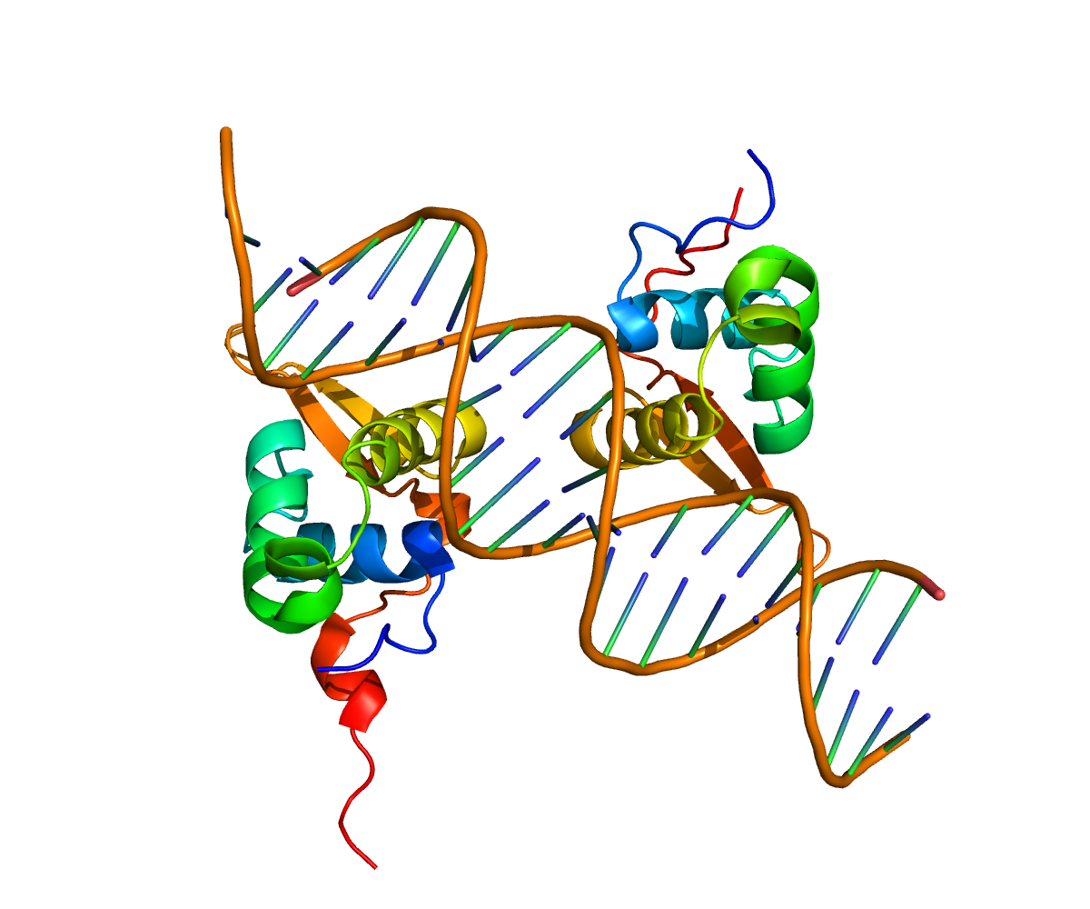 Structure of protein FOXM1.Based on PyMOL rendering of PDB 3G73.